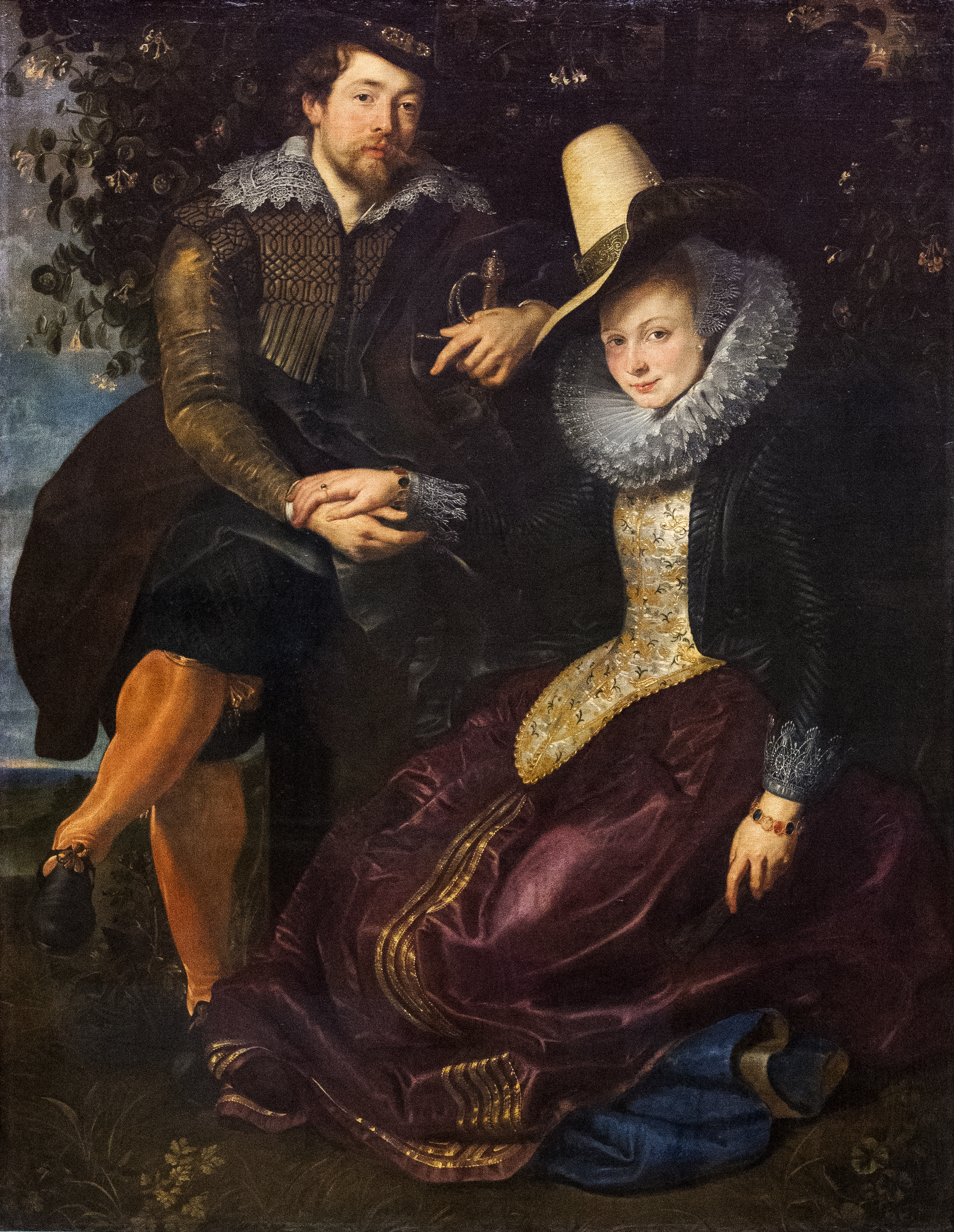 Directly after his return from Italy, the 32 year old Rubens married the 18 year old Isabella Brant. This double portrait, which broke new ground in portrait painting, was purportedly done shortly thereafter. Rubens did not however give up using traditional symbolism: Honeysuckle was a well known symbol for faithfulness and hands laid over one another ("dextrarum iunctio") have symbolized matrimony since ancient times. However these references are integrated into this snapshot-like scene in which middle-class contentedness, substantial affluence and strong affection are expressed.